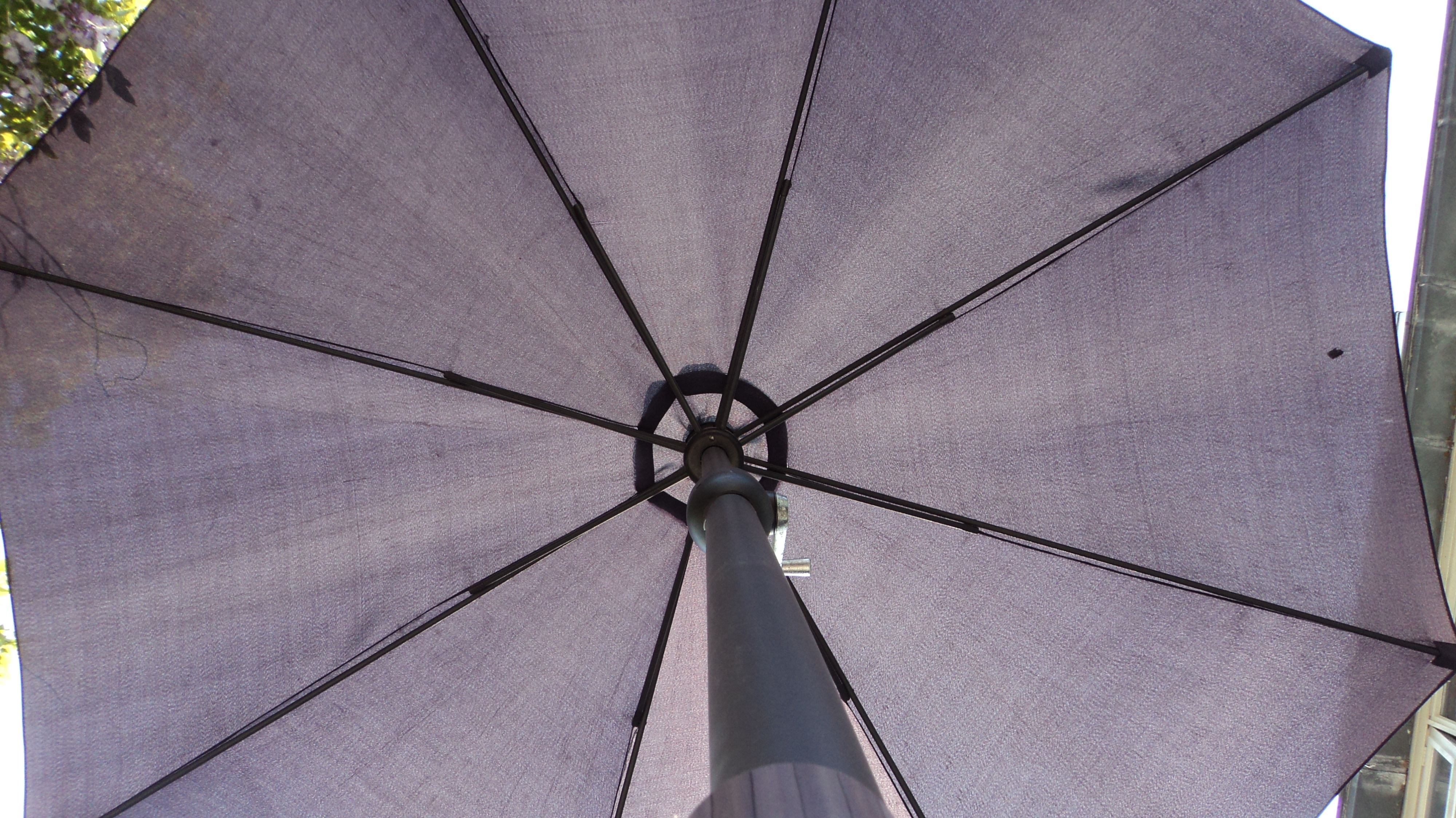 Construction of a parasol